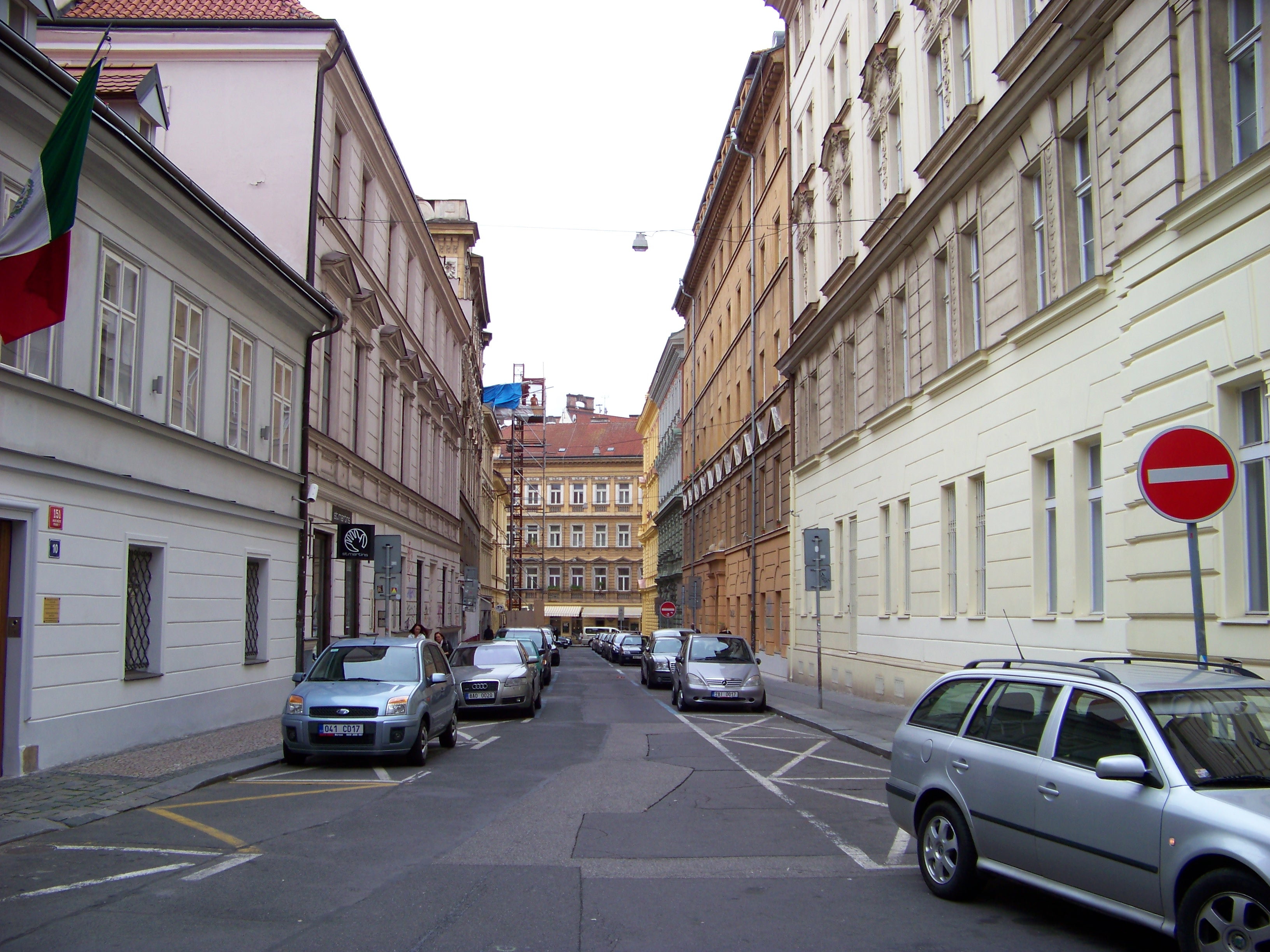 Prague-New Town. V jirchářích street, from Voršilská to Pštrossova street. - OpenStreetMap(Info)